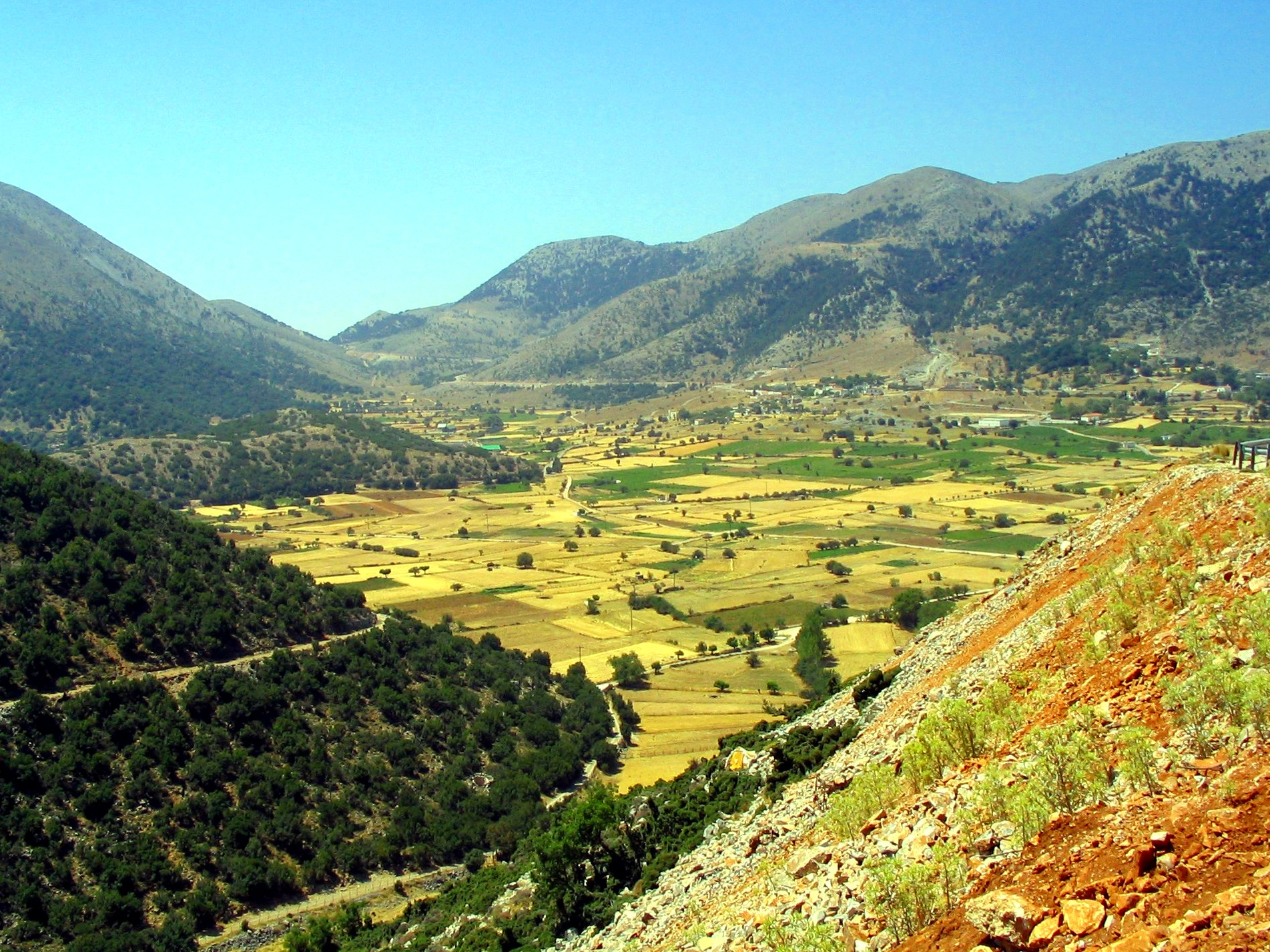 Askifou-Highplain on Crete, Greece